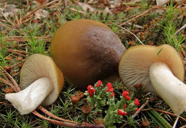 Entoloma bicolor Location: Oneida Co., New York, USA For more information about this, see the observation page at Mushroom Observer.